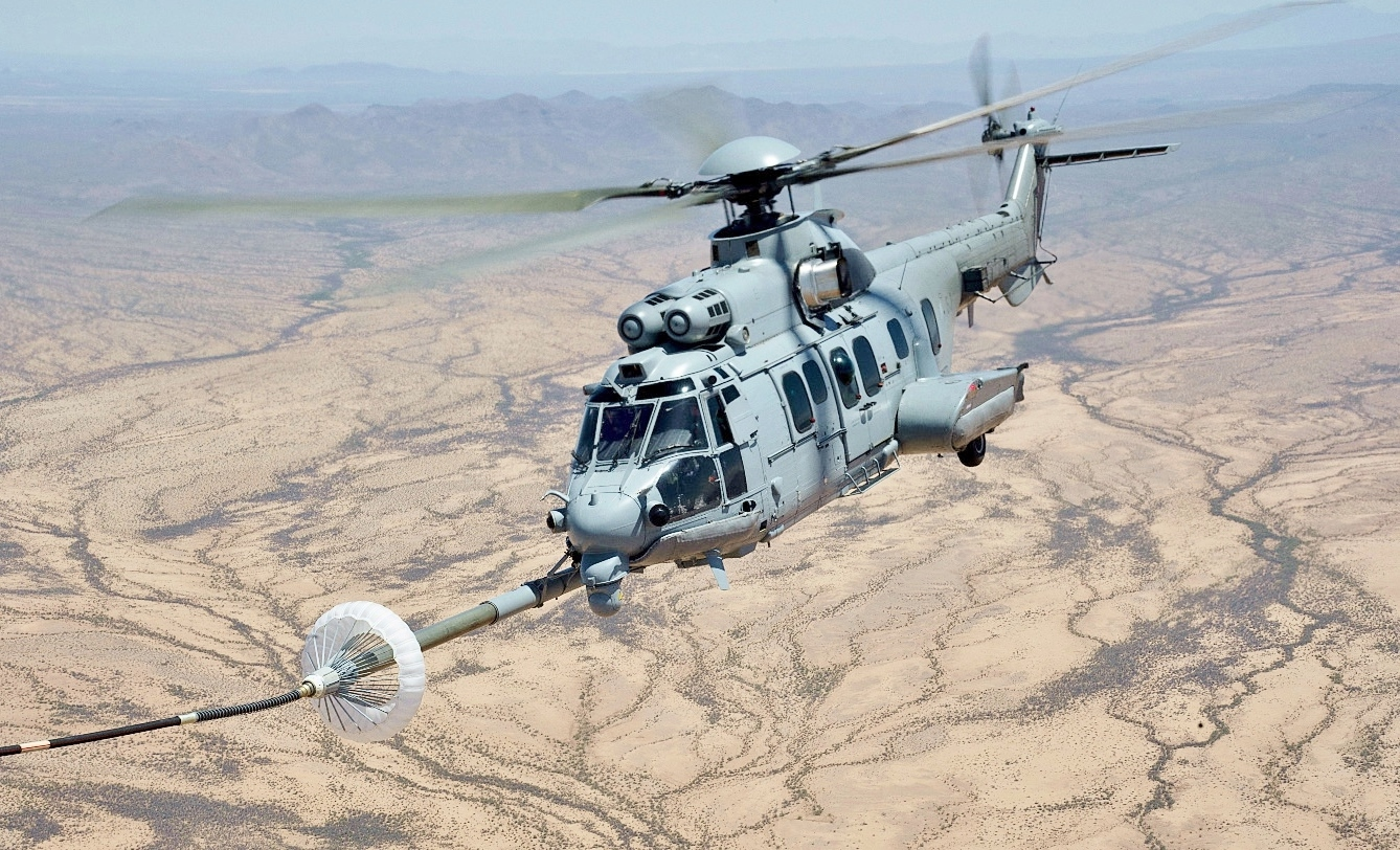 A French Air Force Eurocopter EC725 is refueled by a Lockheed HC-130J Combat King II of the 79th Rescue Squadron, Davis-Monthan Air Force Base, Ariz., during Exercise Angel Thunder, May 12, 2014. Angel Thunder is a multilateral annual exercise that supports the DoD's training requirements for personnel recovery responsibilities through high-fidelity exercises. AT provides the most realistic PR training environment available to USAF rescue forces as well as their joint, interagency and coalition partners. (U.S. Air Force photo by Tech. Sgt. Bradley C. Church) Unit: Air Force Public Affairs Agency - San Antonio